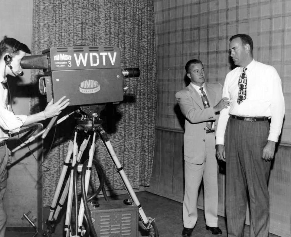 Photo of a broadcast of the television program We, the People from DuMont television network's Pittsburgh, PA station, WDTV. Shown at right is New York Yankees player Bill Bevens, who was the guest.